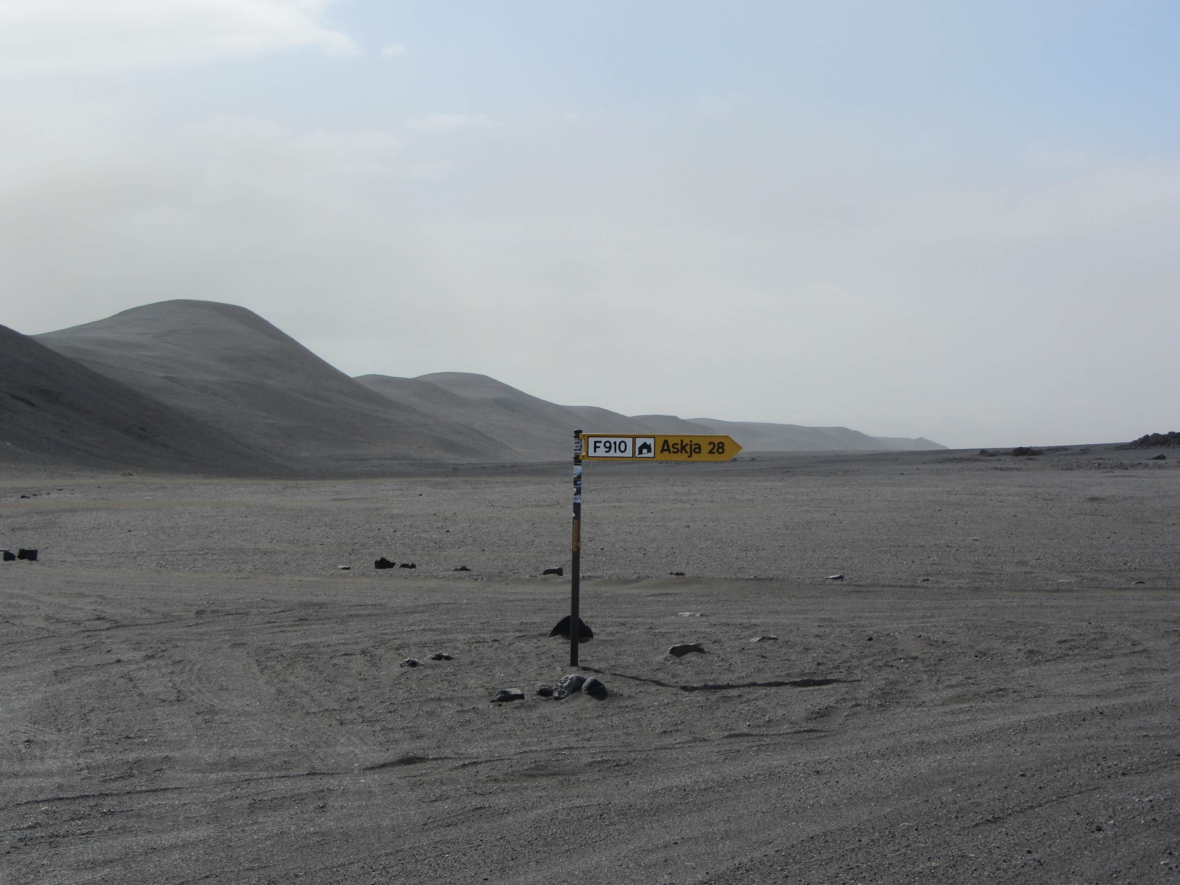 F910 sign